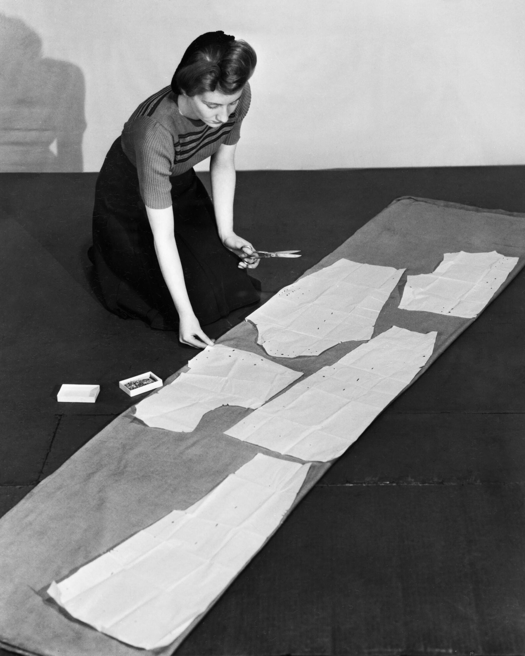 A woman cuts out sections of material from a large piece of curtain or other such fabric, using paper patterns as a guide, 1942. A woman cuts out sections of material from a large piece of curtain or other such fabric, using a paper pattern as a guide.